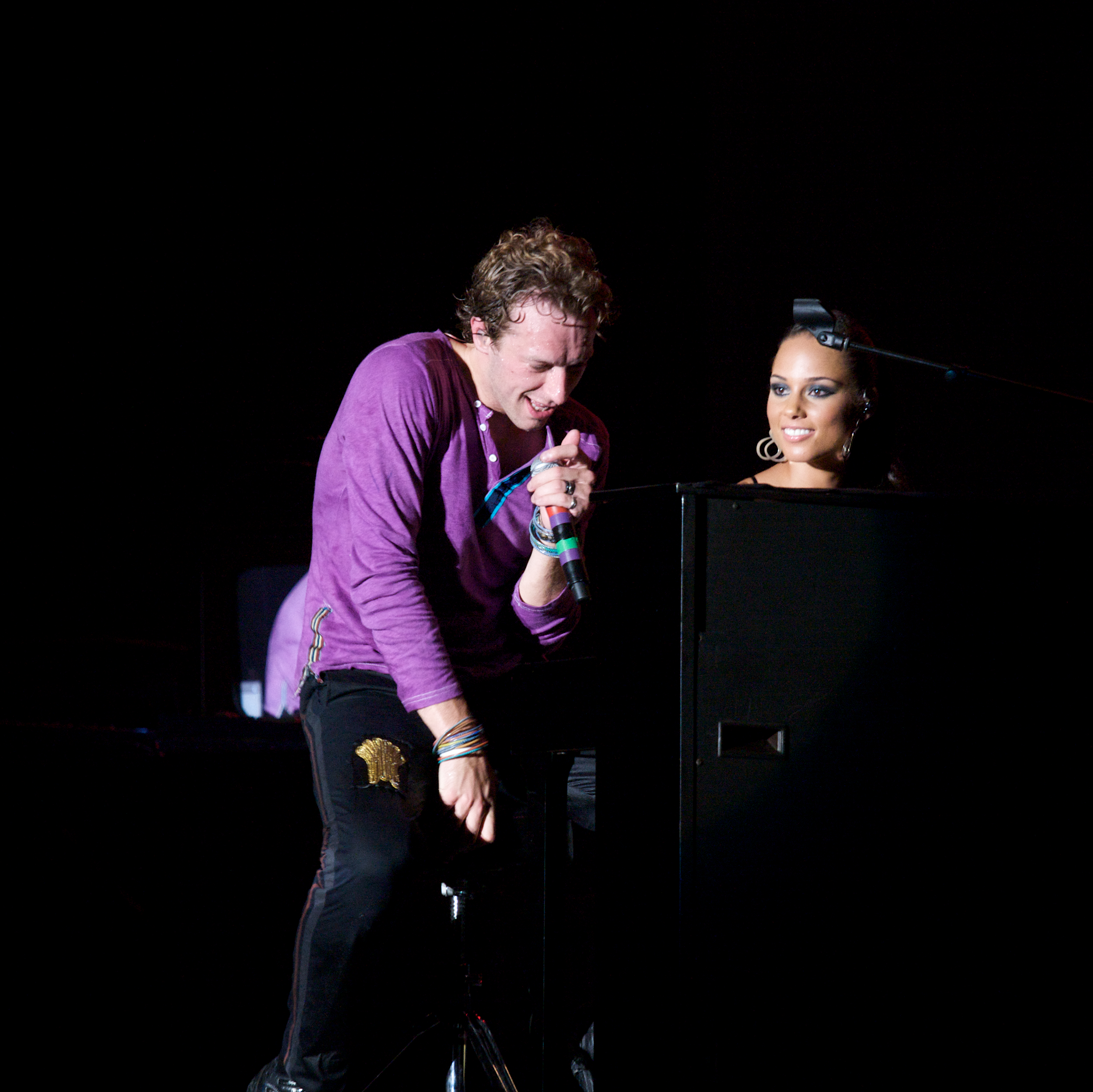 Coldplay & Alicia Keys at the keys: "Clocks"